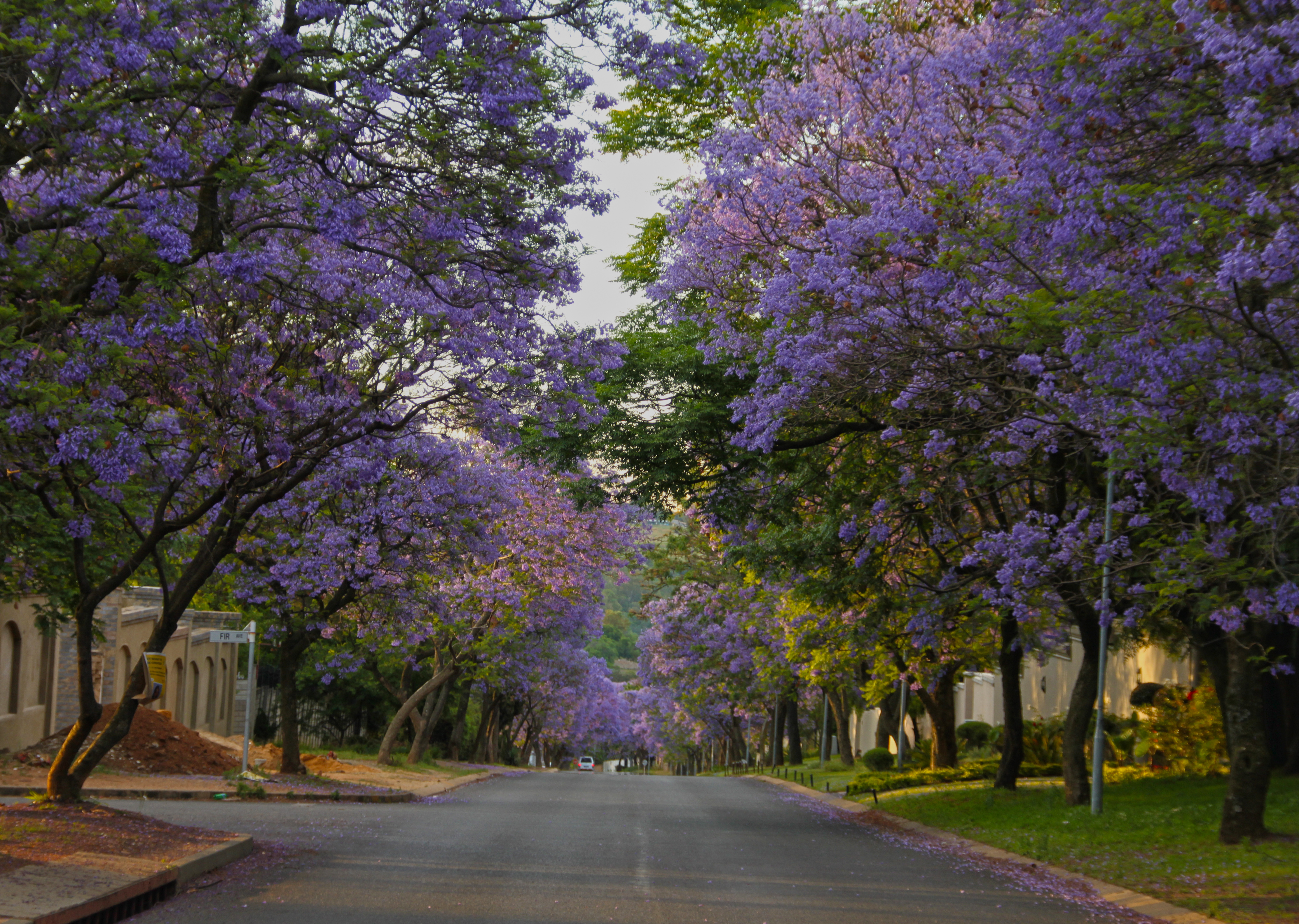 Pretoria in South Africa is popularly known as The Jacaranda City due to the enormous number of Jacaranda trees planted as street trees and in parks and gardens. In flowering time the city appears blue/purple in colour when seen from the nearby hills because of all the Jacaranda trees. The time of year the Jacarandas bloom in Pretoria coincides with the year-end exams and legend has it that if a flower from the Jacaranda tree drops on your head, you will pass all your exams. This was however taken in Johannesburg.